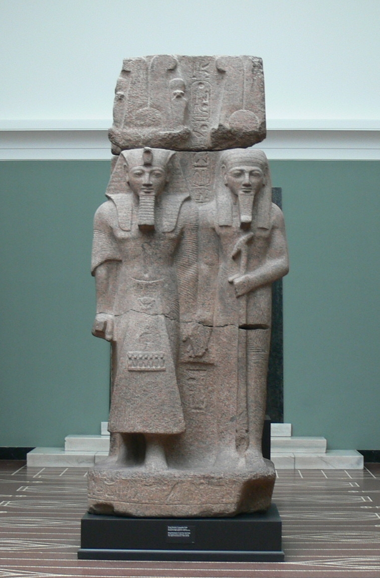 Statues of Ramses II and Ptah Tatenen - Egyptian collection in Ny Carlsberg Glyptothek, Copenhagen. Exhibition room